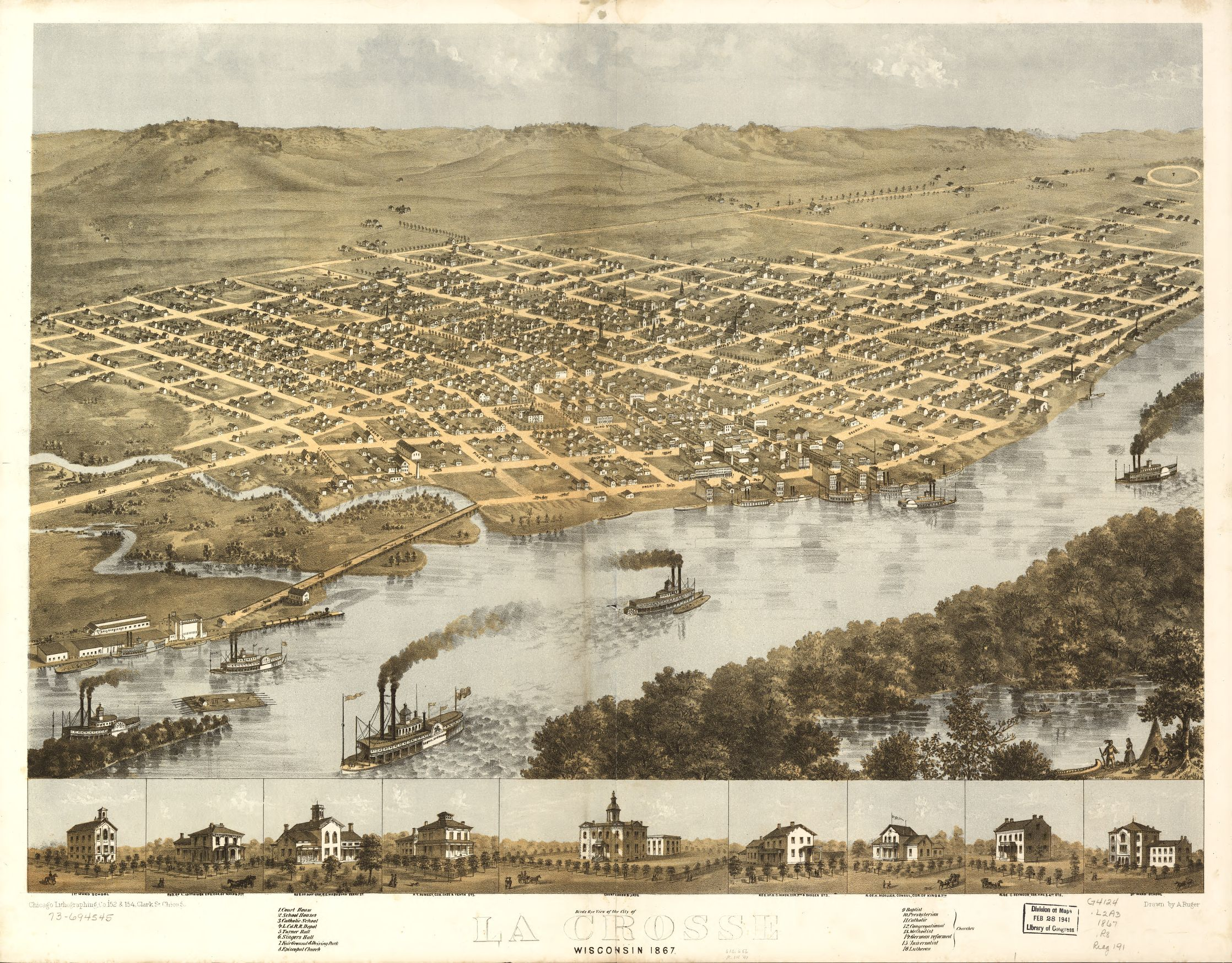 Panoramic view of La Crosse, Wisconsin in 1867.